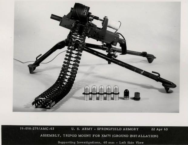 The XM75 experimental grenade launcher on a tripod.